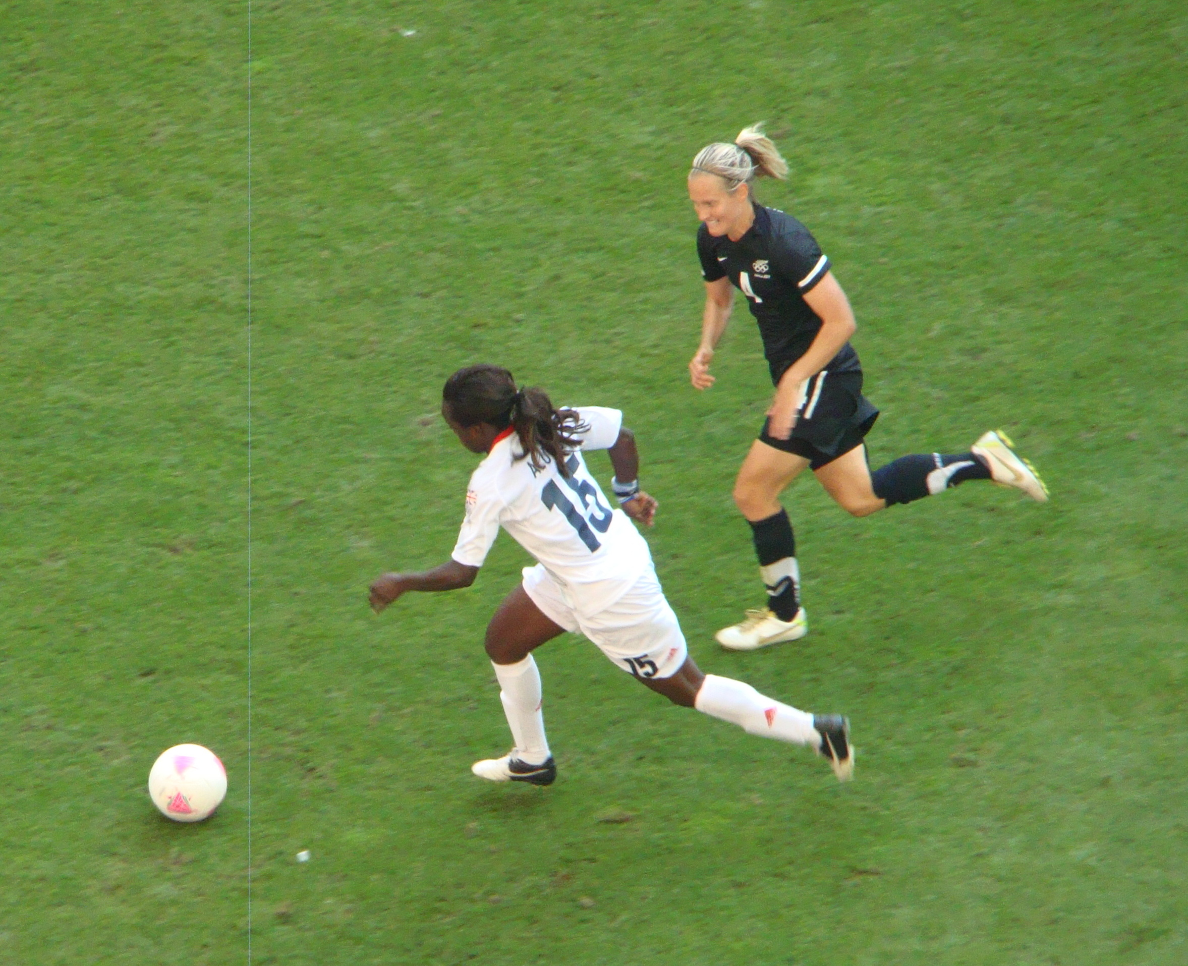 Cardiff, Millennium Stadium, July 25, 2012. Great Britain — New Zealand 1-0. 2012 Summer Olympics, Women's tournament, Group E. Eniola Aluko (no. 15) and Katie Hoyle (no. 4).